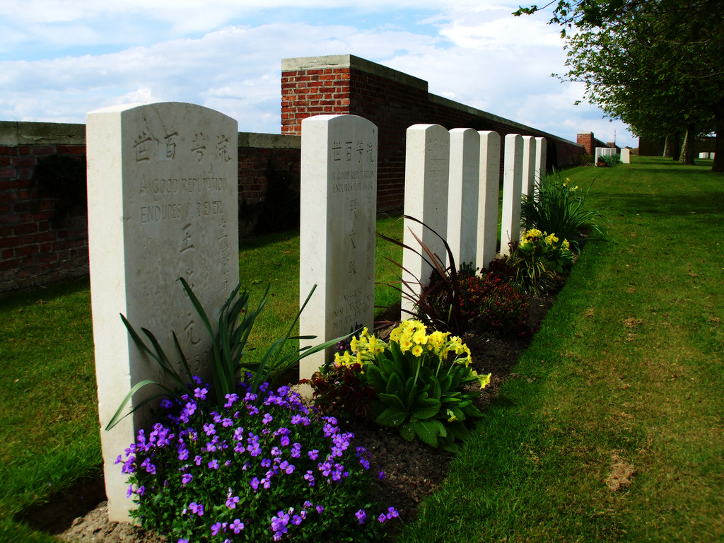 New Irish Farm Commonwealth War Graves Commission Cemetery - heroic Chinese Labour Corps graves